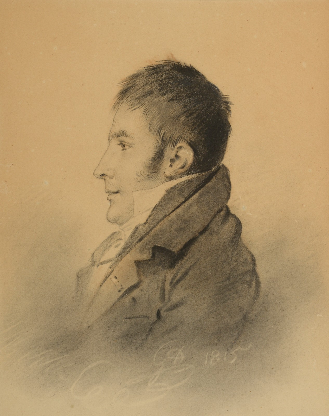 Louis-François Bertin de Vaux (1771-1842), drawing by Girodet-Trioson, 1815